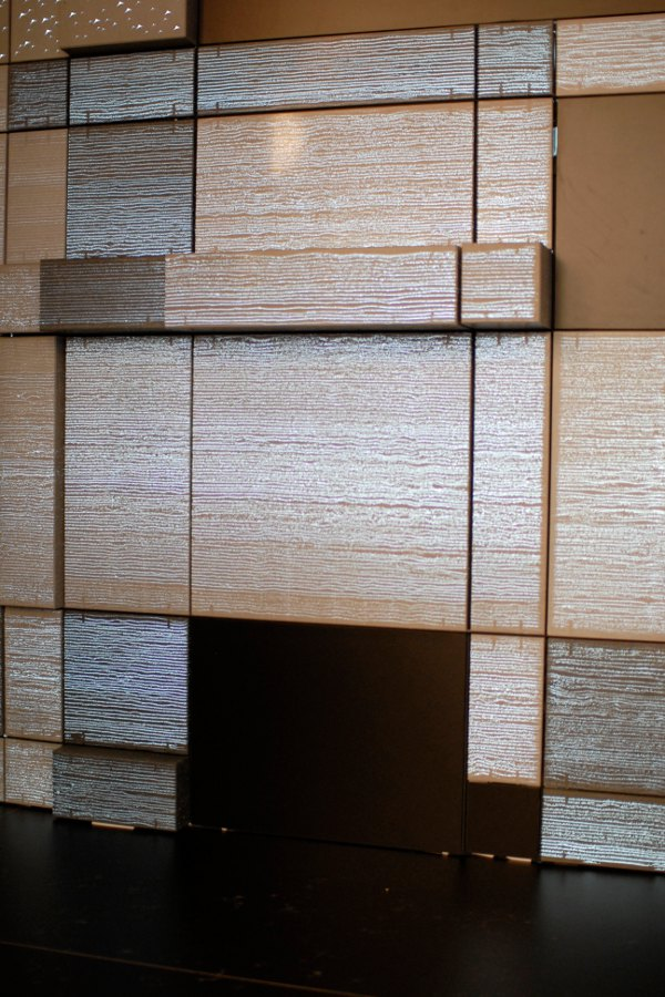 Translucent Concrete at Expo "Bau 2011" in Munich, Germany at the booth of LUCEM GmbH